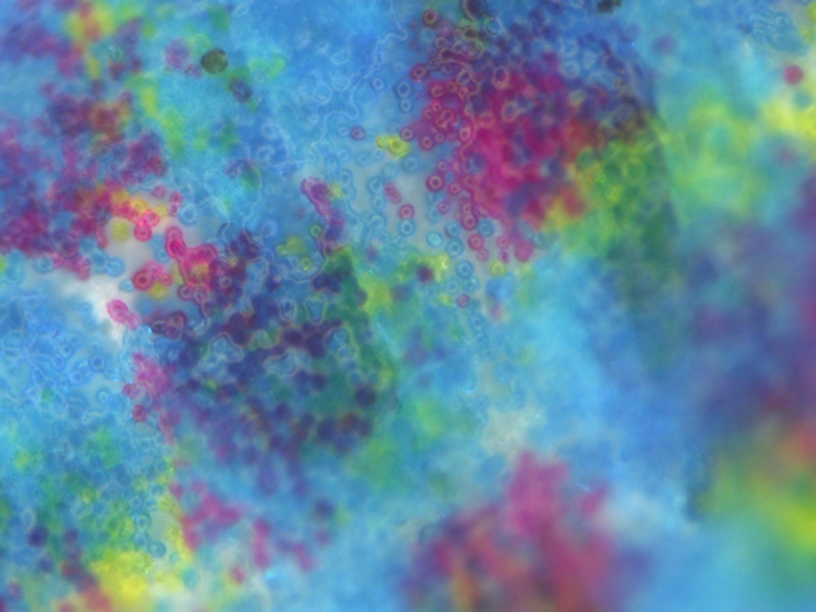 1000x magnification of color laser printer output at 1200 DPI. 4 dots/pixels are in view, with the remaining blue toner particles contributing to the overall bluish hue of the portion of the image being magnified.